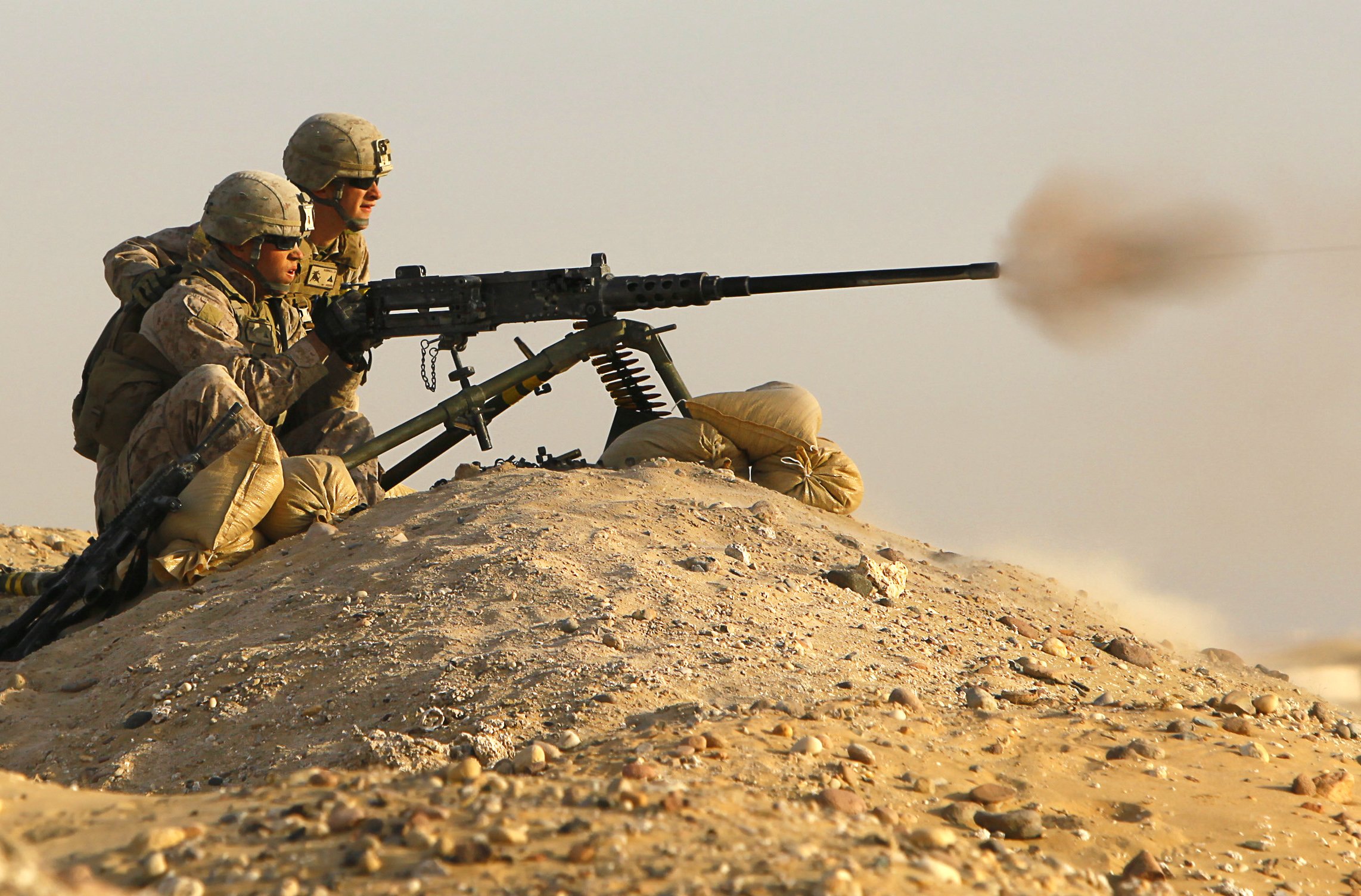 U.S. Marines with Weapons Company fire an M2 heavy machine gun during field training on January 30, 2012.